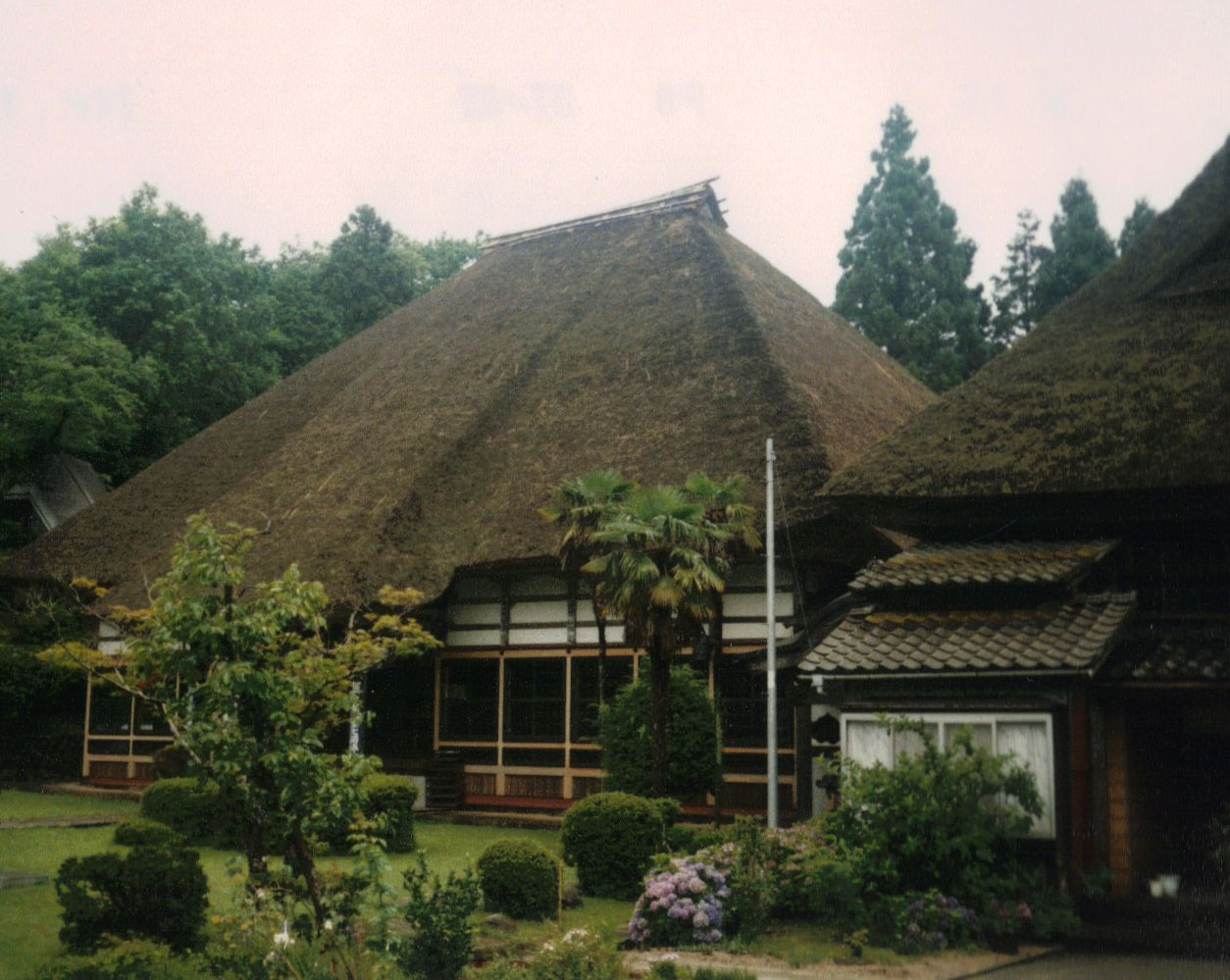 Myoshoji Temple, Sado Island, Niigata Prefecture, Japan